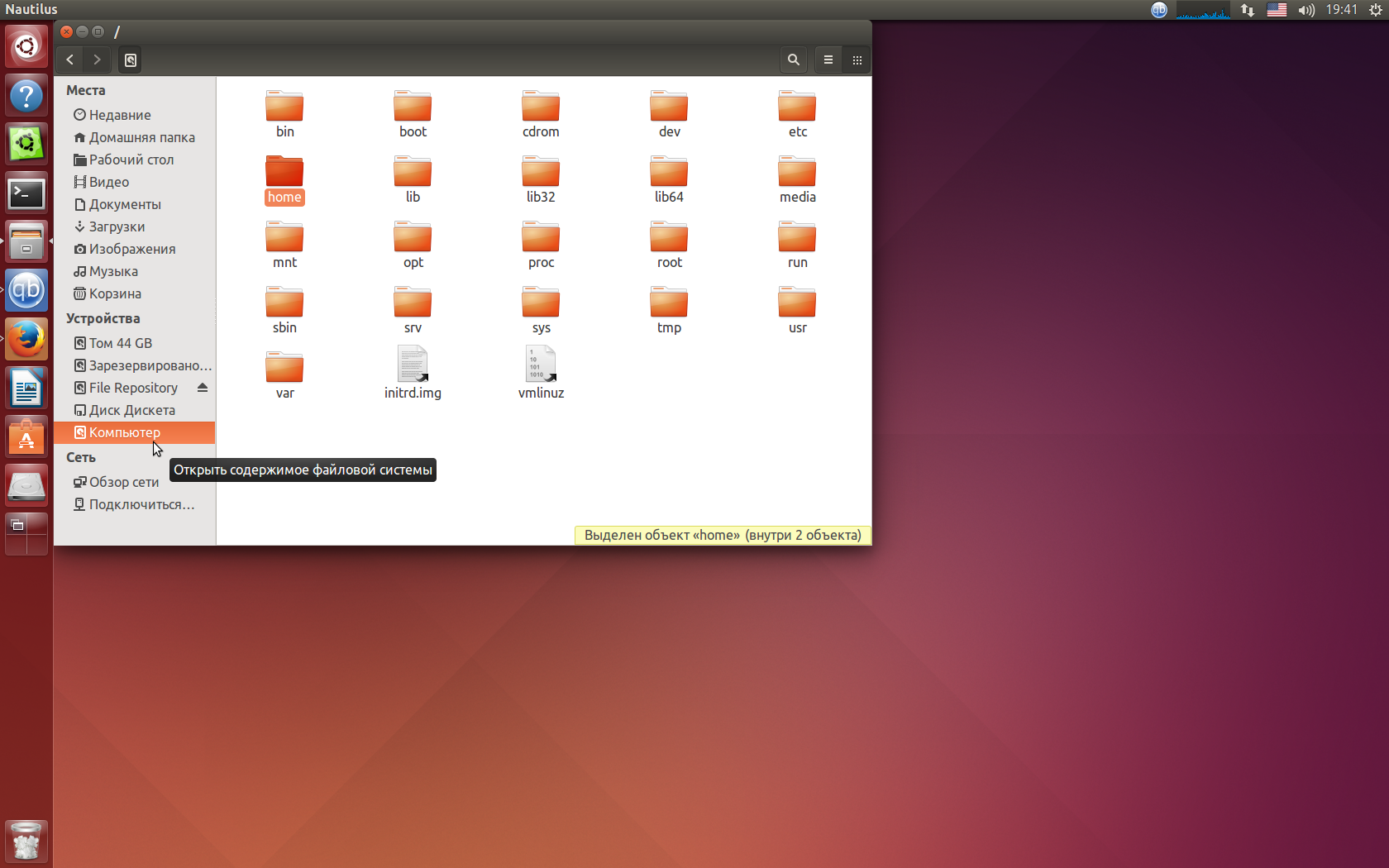 Filesystem Hierarchy Standard (FHS) in Ubuntu 14.04. In Russian.